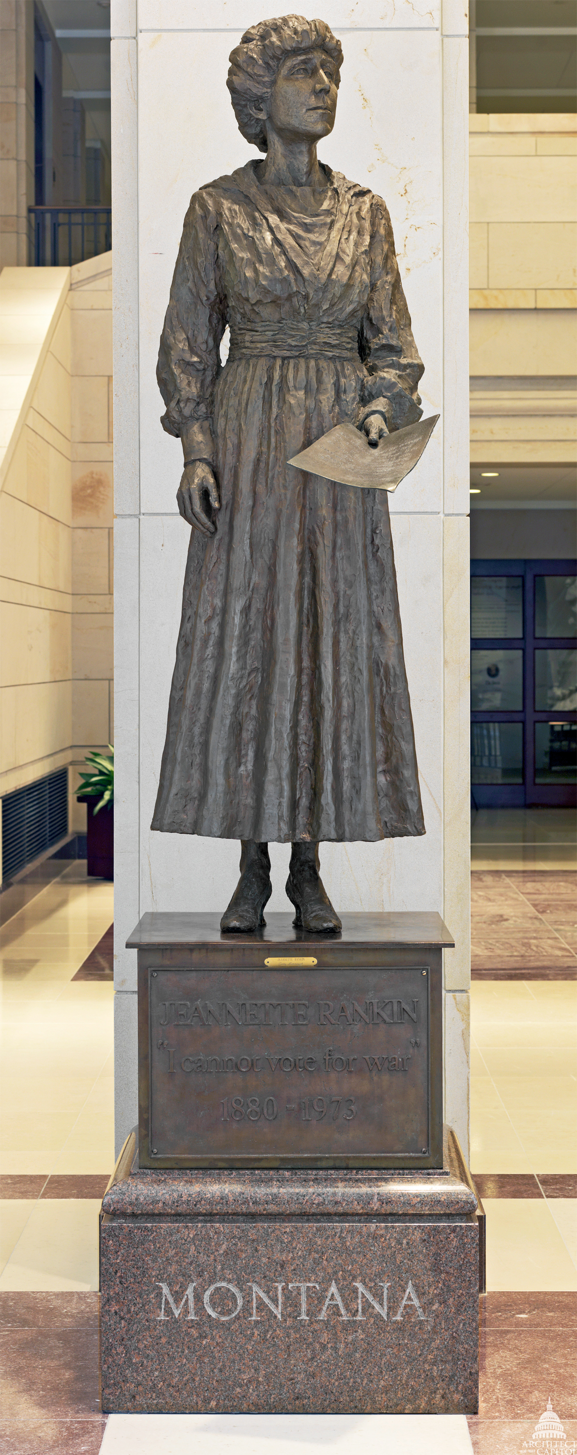 Jeannette Rankin (1880-1973) Montana Bronze by Terry Mimnaugh Given in 1985 CVC Emancipation Hall U.S. Capitol This official Architect of the Capitol photograph is being made available for educational, scholarly, news or personal purposes (not advertising or any other commercial use). When any of these images is used the photographic credit line should read “Architect of the Capitol.” These images may not be used in any way that would imply endorsement by the Architect of the Capitol or the United States Congress of a product, service or point of view. For more information visit